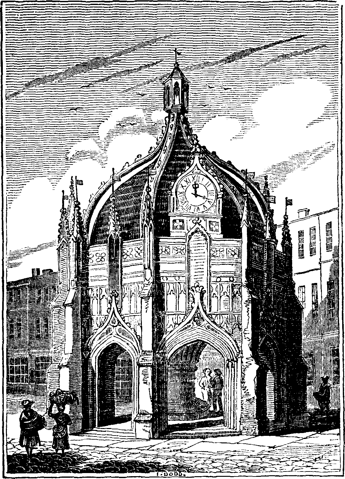 Illustration of Chichester Cross, from THE MIRROR OF LITERATURE, AMUSEMENT, AND INSTRUCTION. Vol. XVII. No. 470. SATURDAY, JANUARY 8, 1831. From